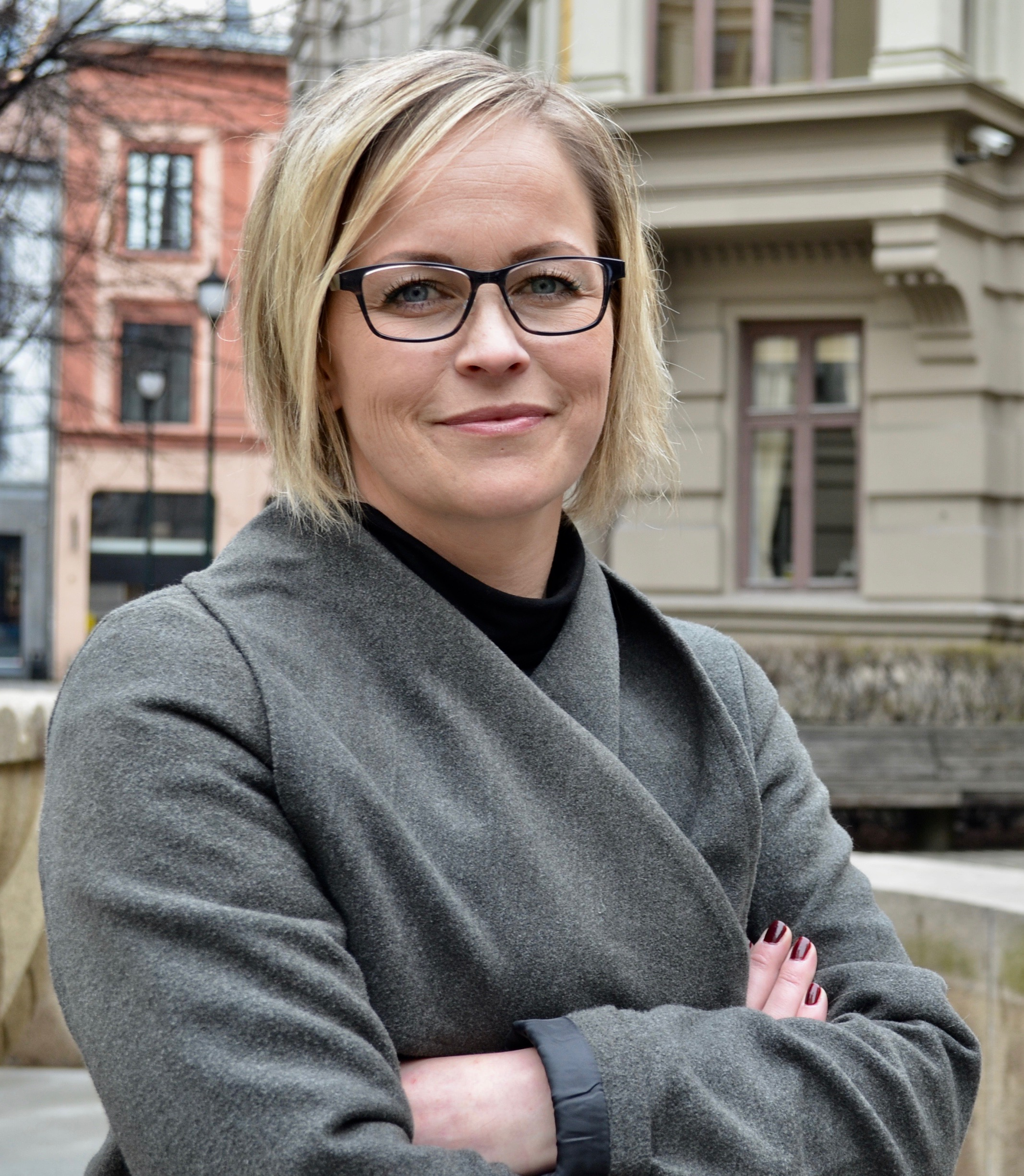 Second deputy leader of the Norwegian Red Party, Silje Josten Kjosbakken